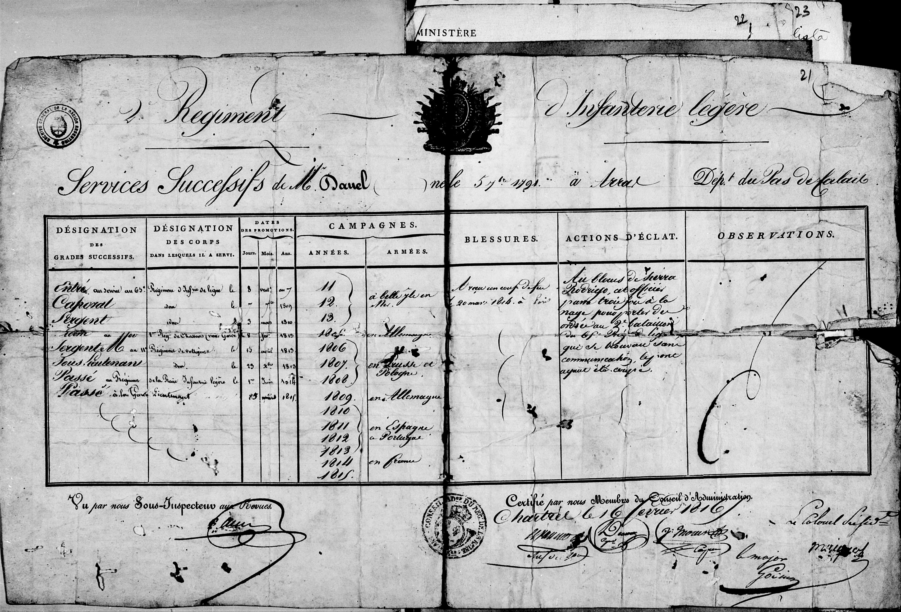 Military services record of Colonel Alejandro Danel